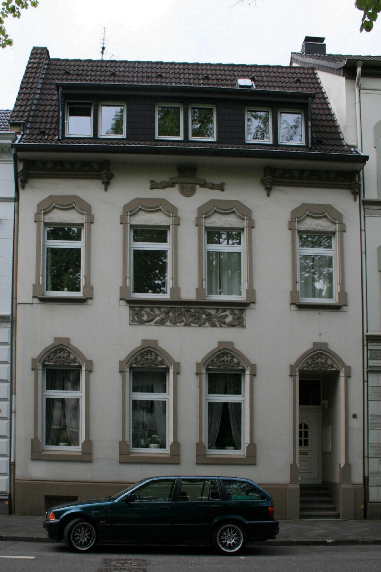 Cultural heritage monument No. B 145 in Mönchengladbach